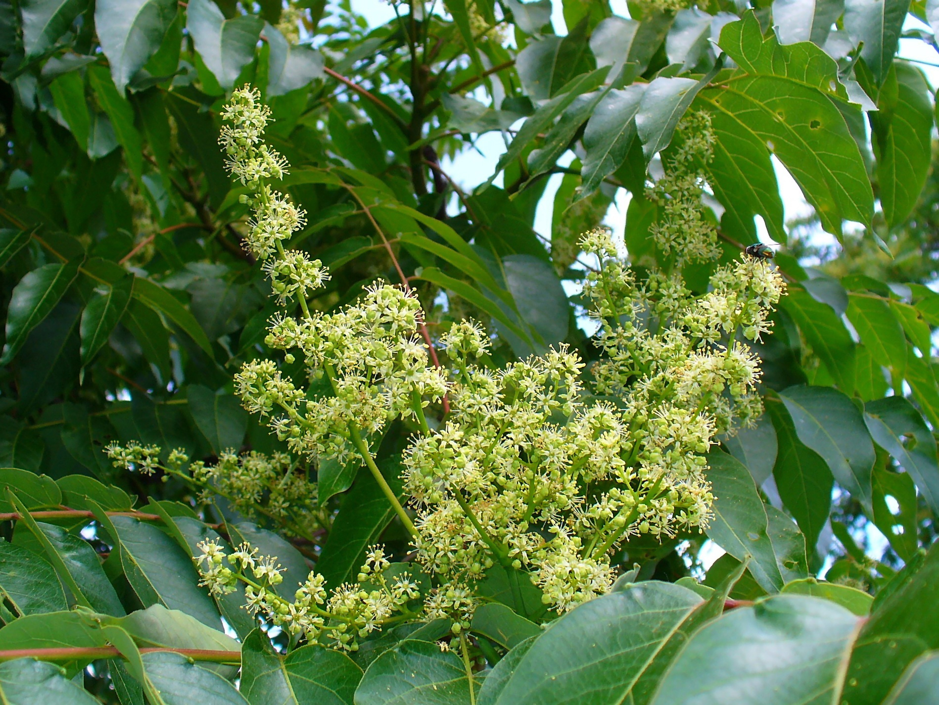 Ailanthus altissima, Simaroubaceae, Tree of Heaven, Ailanthus, inflorescence.